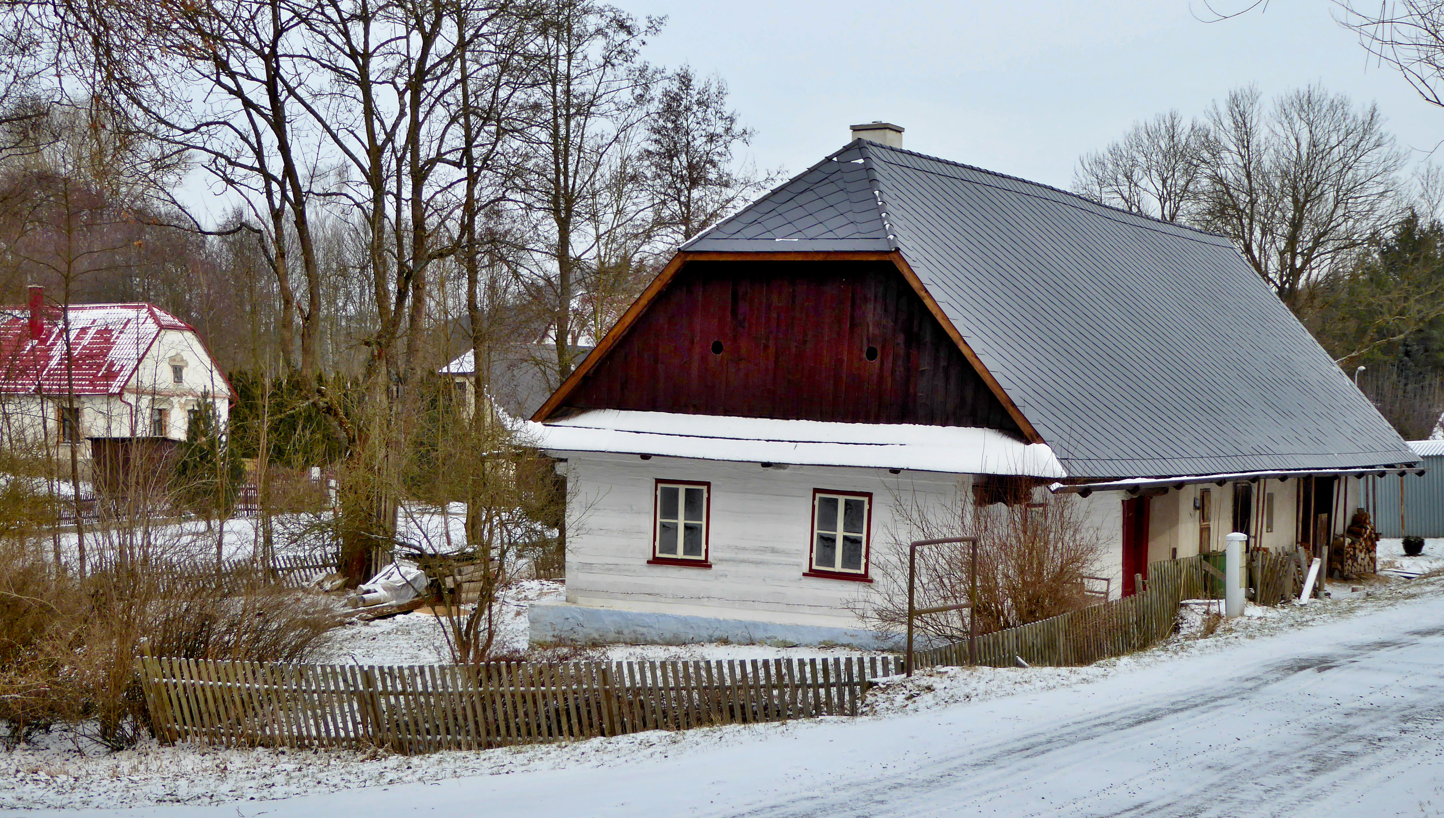 The building of a former village school dating back to 1814 and czech cultural monument in the village of "Vysočina", part "Možděnice". Building near the local road with a yellow marked tourist route of the Club of Czech Tourists (part: "Zubří – Možděnice – Kocourov"). A cultural monument since May 3, 1958, documents the village single school associated with the teacher's home, built by local residents. Photo location: Czechia, Pardubice Region, municipality Vysočina, the hamlet of "Možděnice", "Stružinecká" knoll hill.